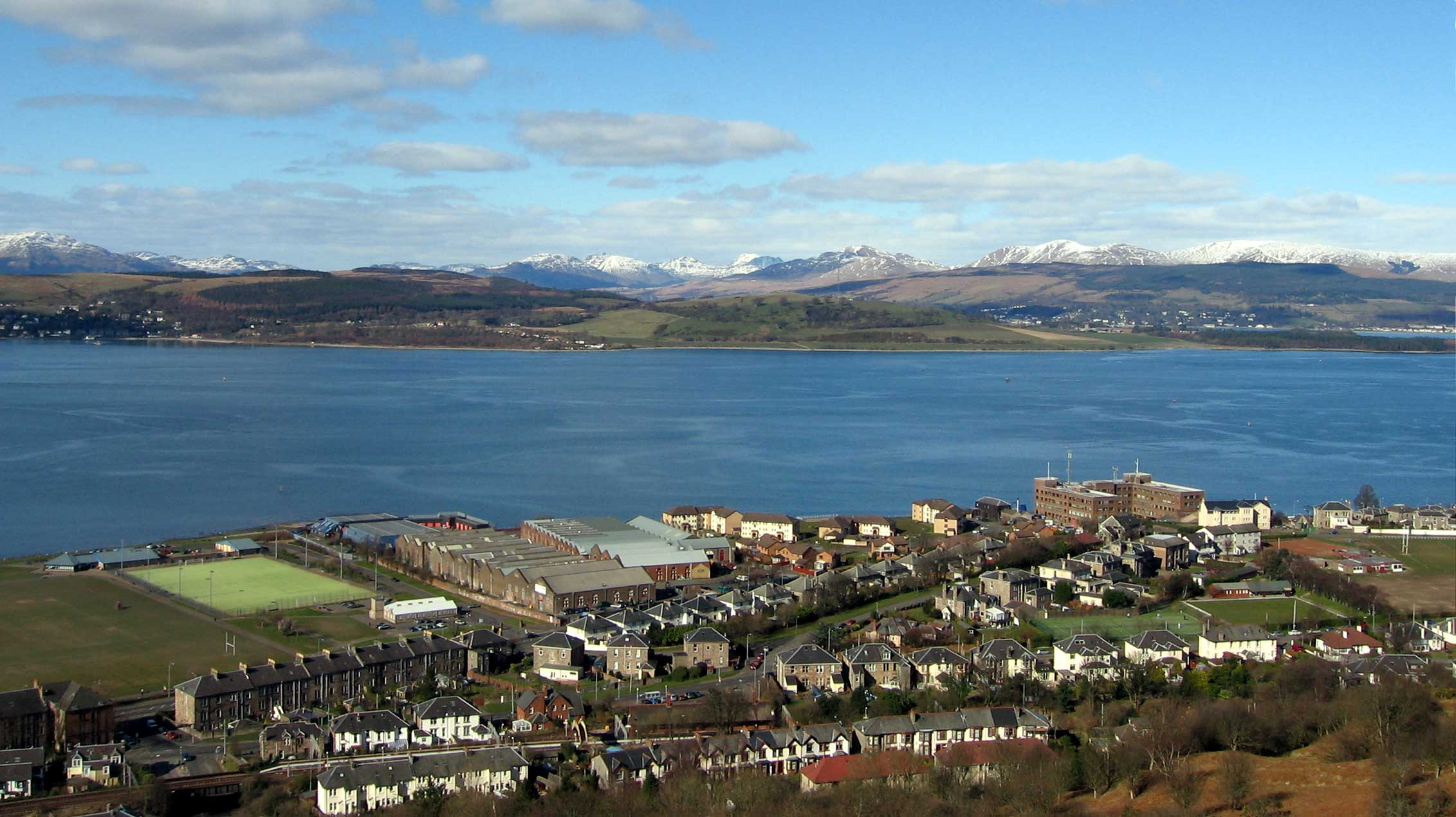 The Fort Matilda area of Creenock, view from the Lyle Hill over the Firth of Clyde